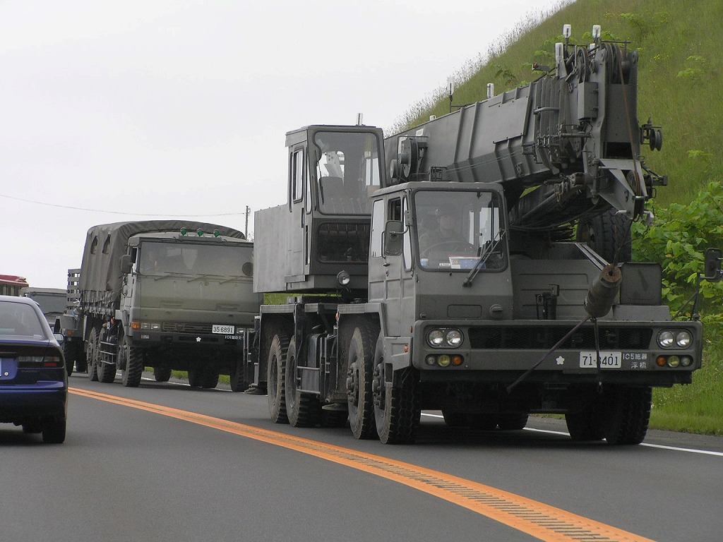 Truck crane-Japan Ground Self-Defense Force6240045